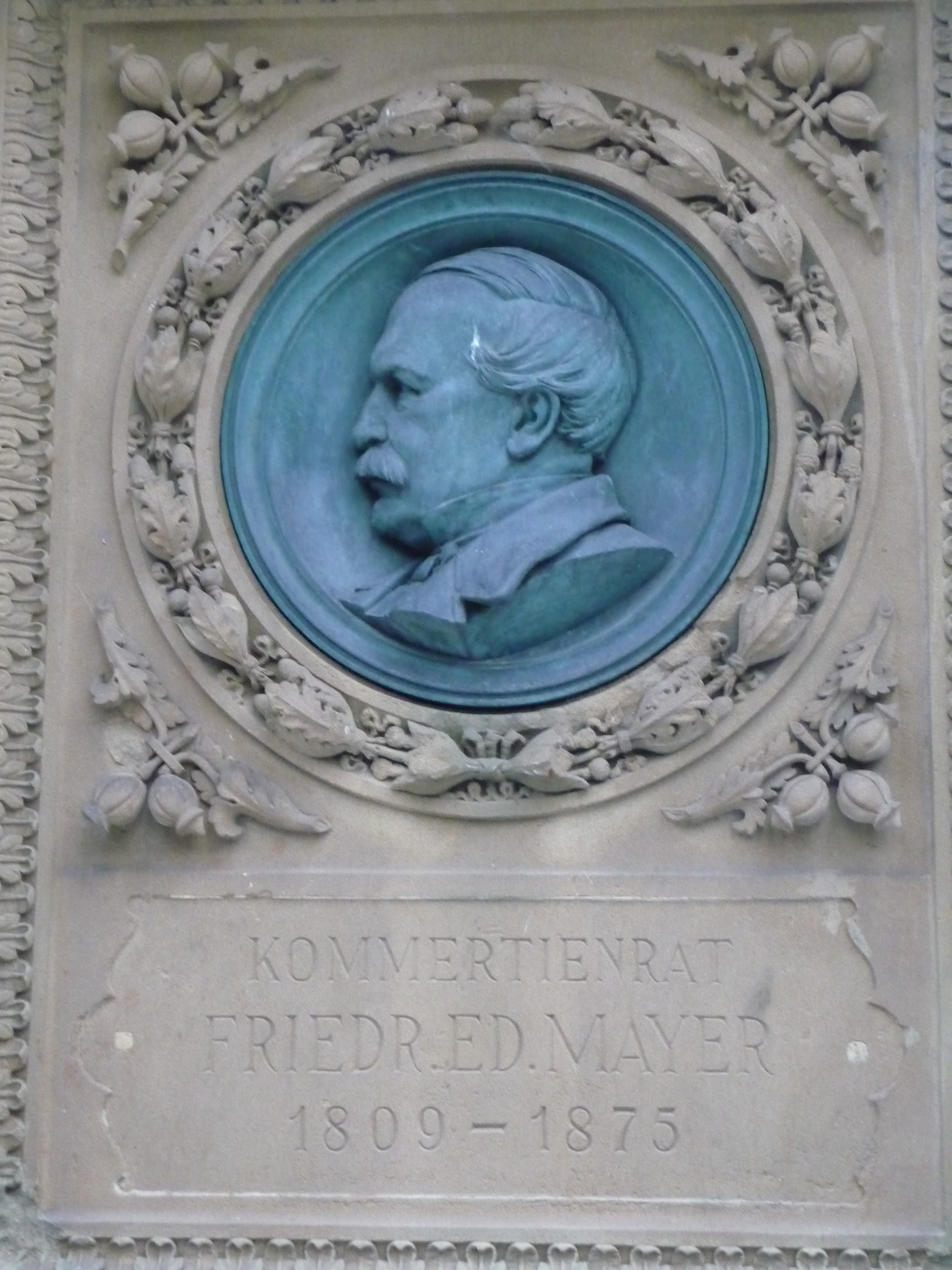 Friedrich Eduard Mayer (1809-1875)